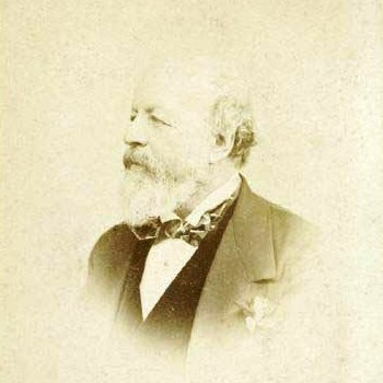 Charles Stanhope, 8th Earl of Harrington - Charles Auguste Stanhope (1844/45-1917), 'No. 93595.' Charles Augustus Stanhope, 8th Earl of Harrington (9 January 1844 – 5 February 1917), known as Viscount Petersham from 1866 to 1881, was a British peer and successful polo player